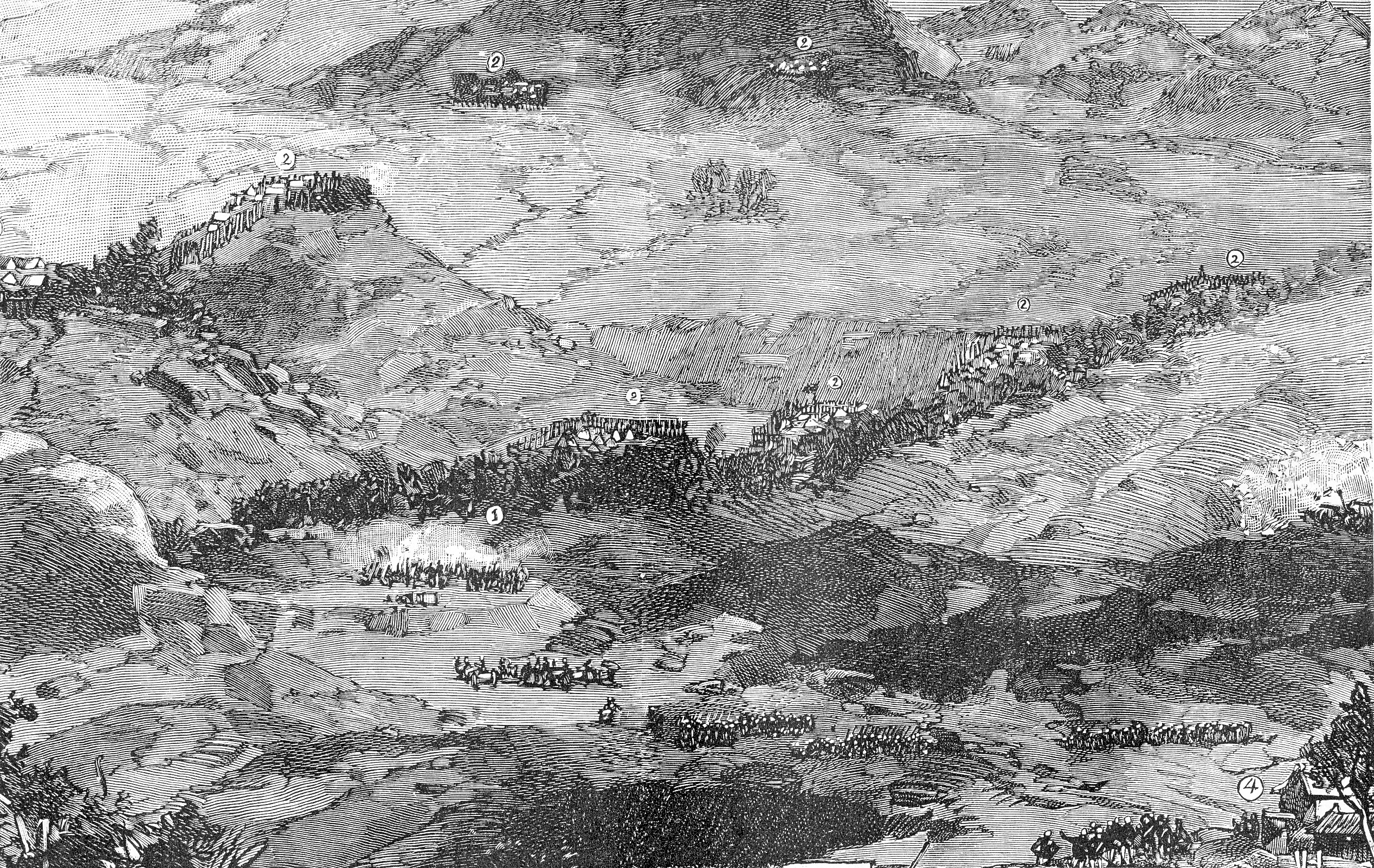 Panorama of the battle of Nui Bop, 4 January 1885